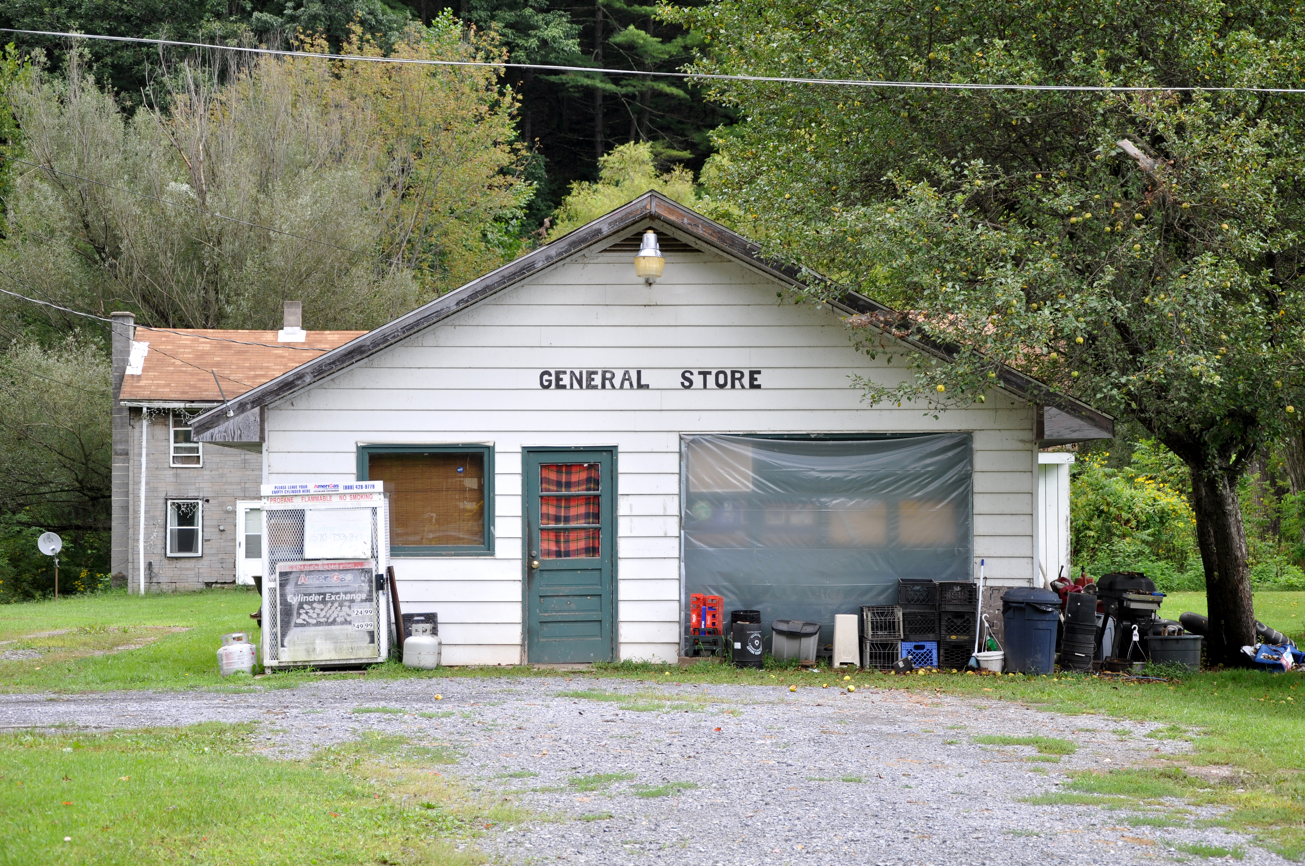 Store front along Route 414 in Jersey Mills in the U.S. state of Pennsylvania